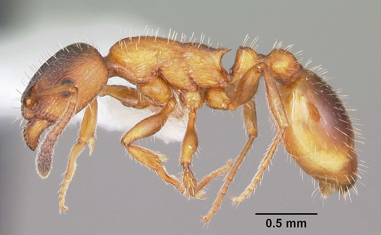 Profile view of ant Leptothorax acervorum specimen casent0104845.